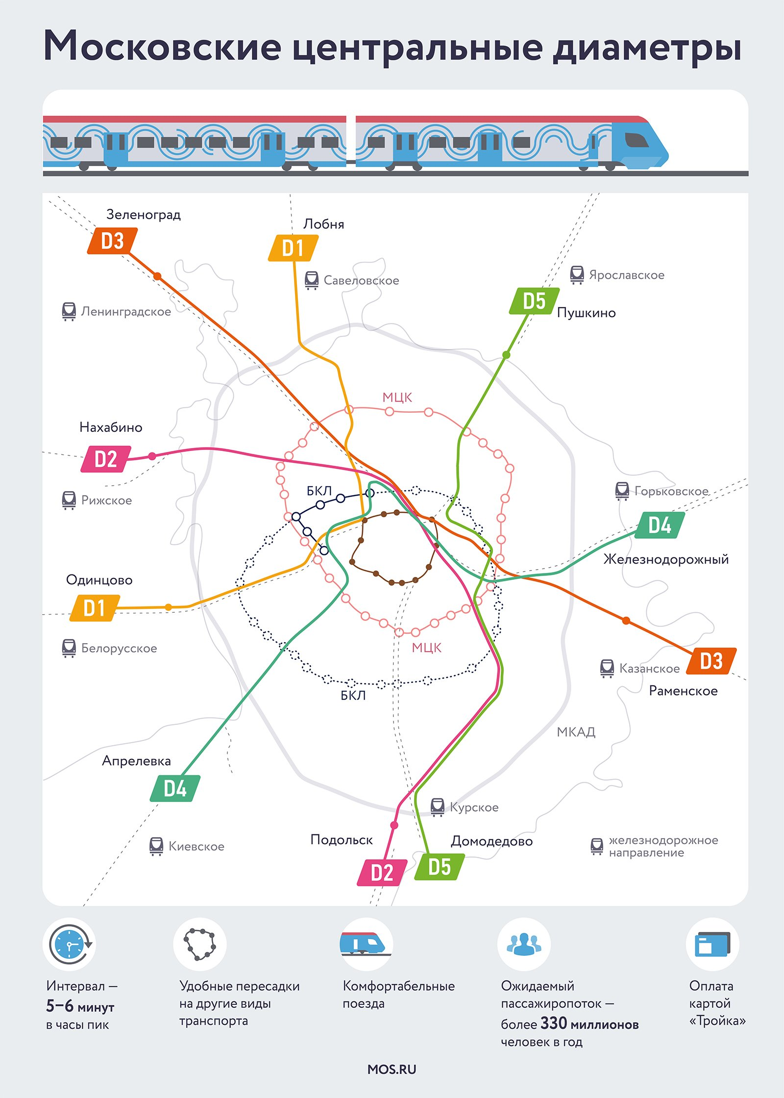 Moscow Central Diameters - passenger scheme